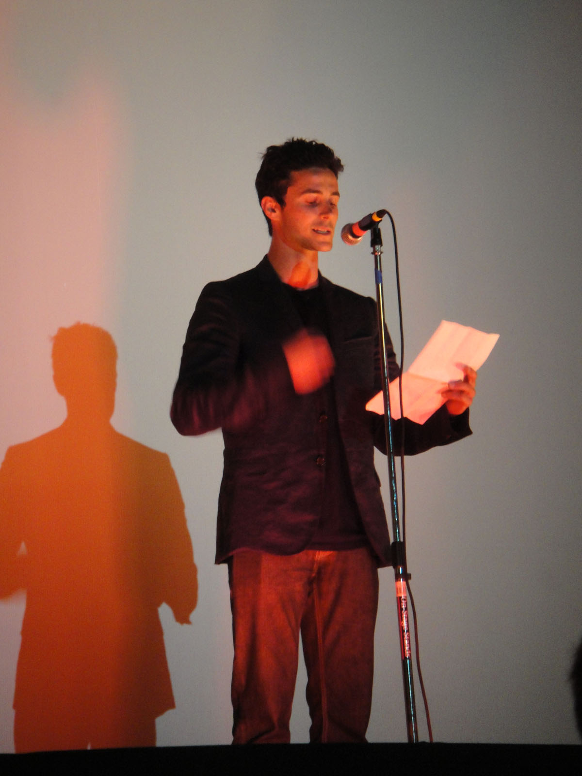 photo © 2012 taken by Doug Kline If you're interested in higher resolution versions of my images, contact me via my profile page.